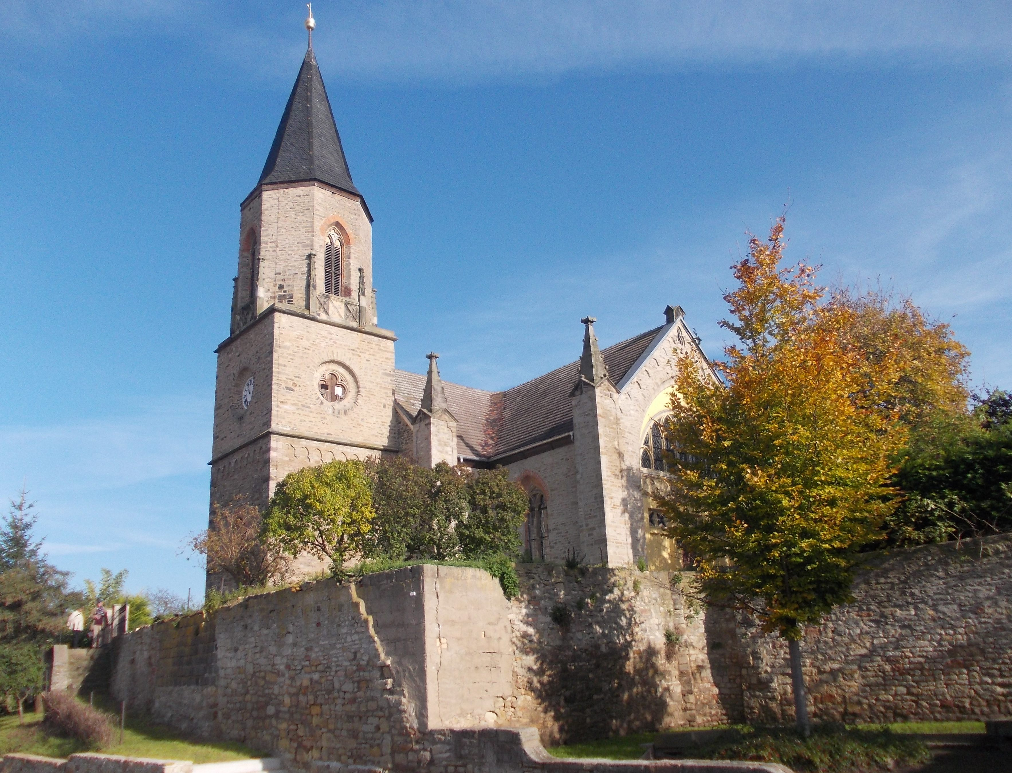 Saints Lucy and Odile Church in Höhnstedt (Salzatal, district: Saalekreis, Saxony-Anhalt)